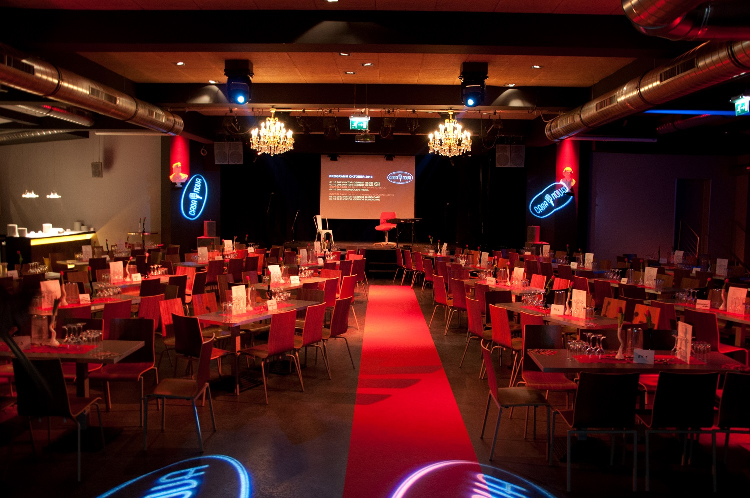 Stage-view of CasaNova Vienna